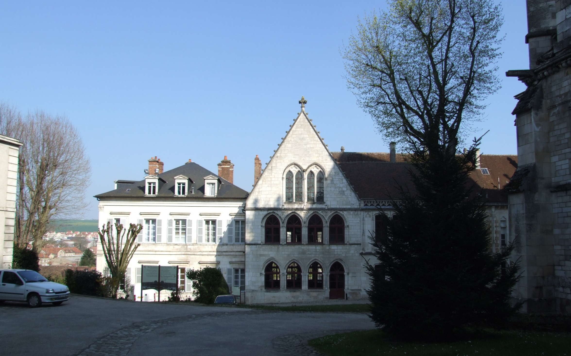 Auxerre, Burgundy, FRANCE